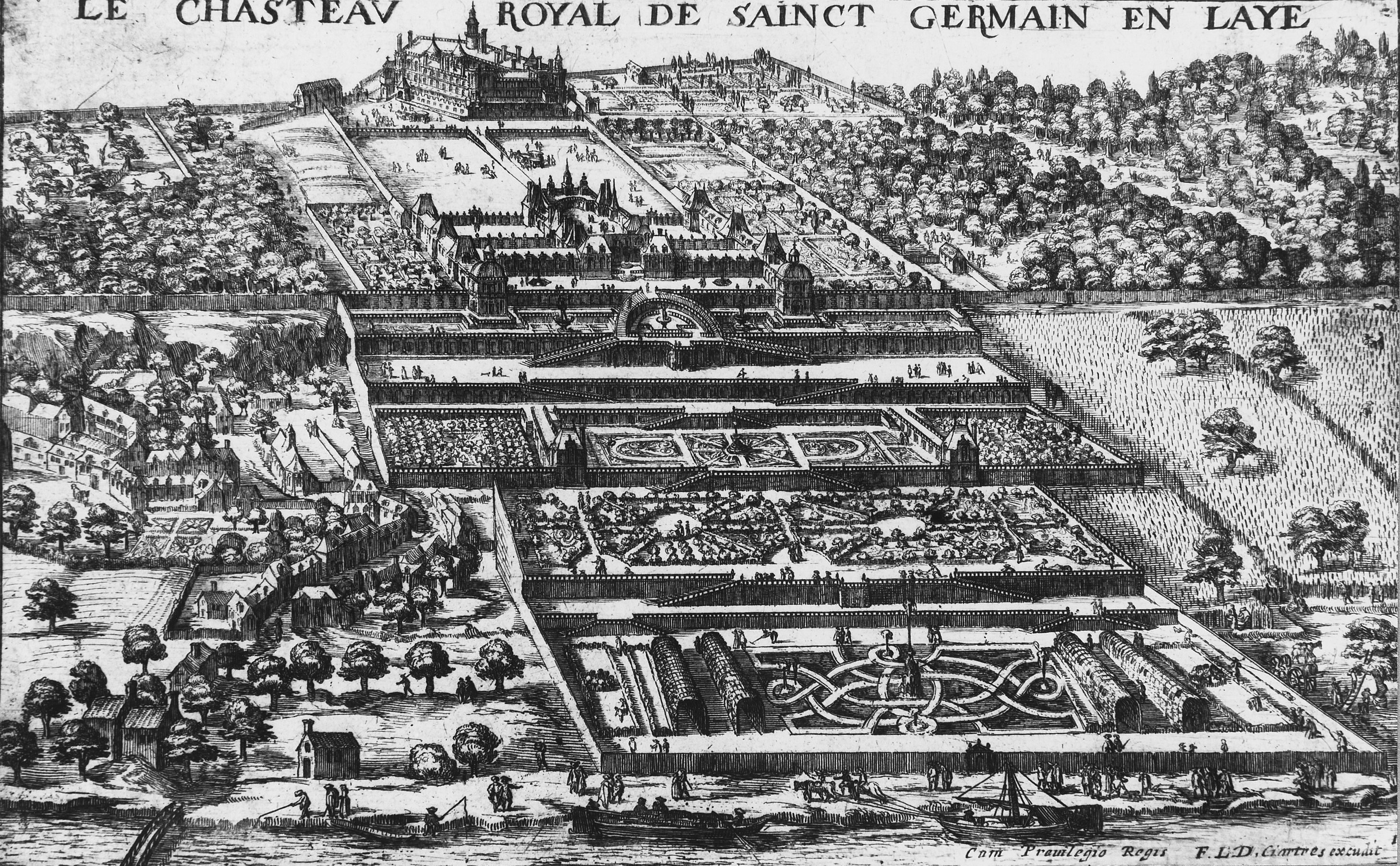 Contemporary engraving of the Chateau neuf in Saint-Germain-en-Laye